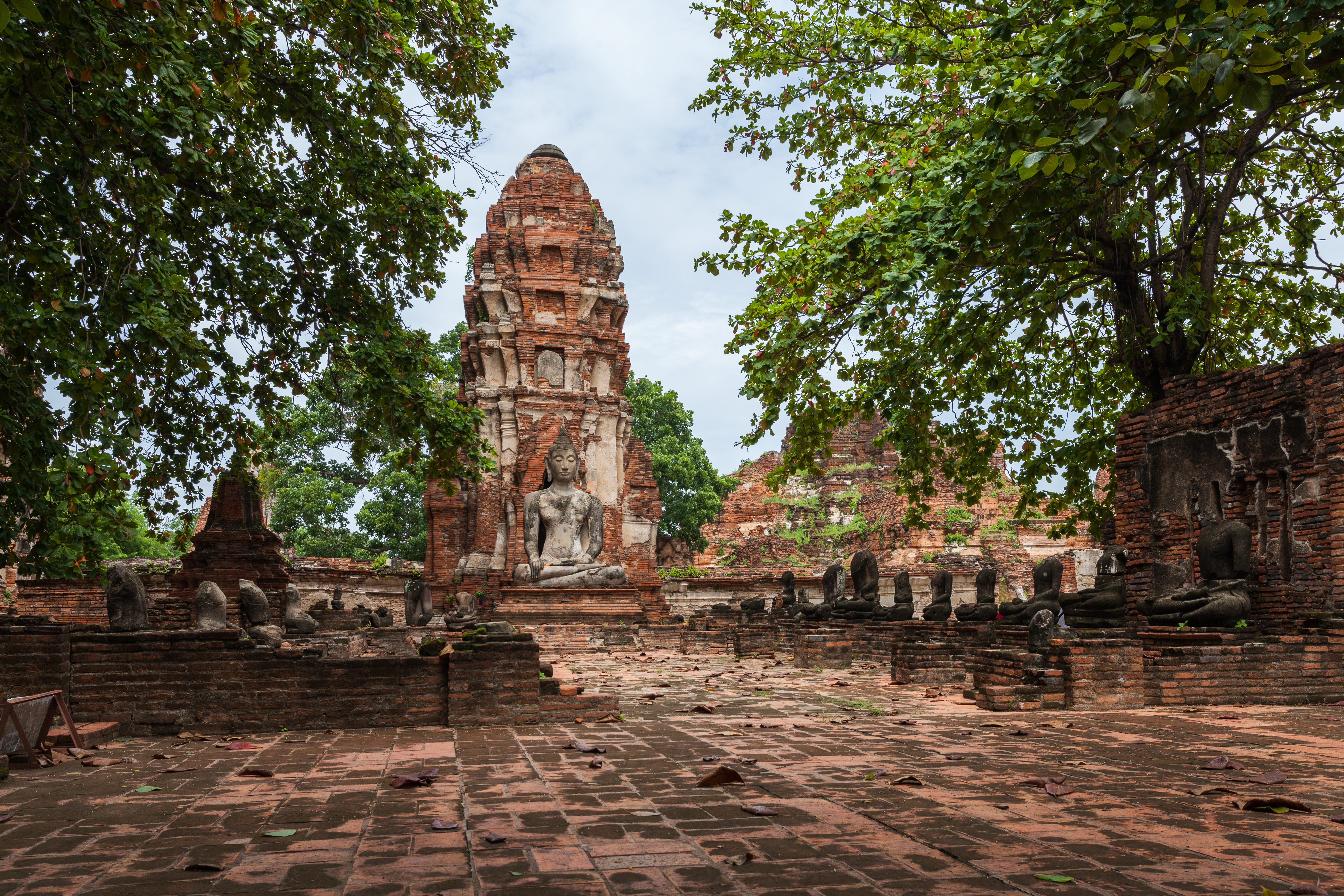 Mahathat Temple, Ayutthaya, Thailand